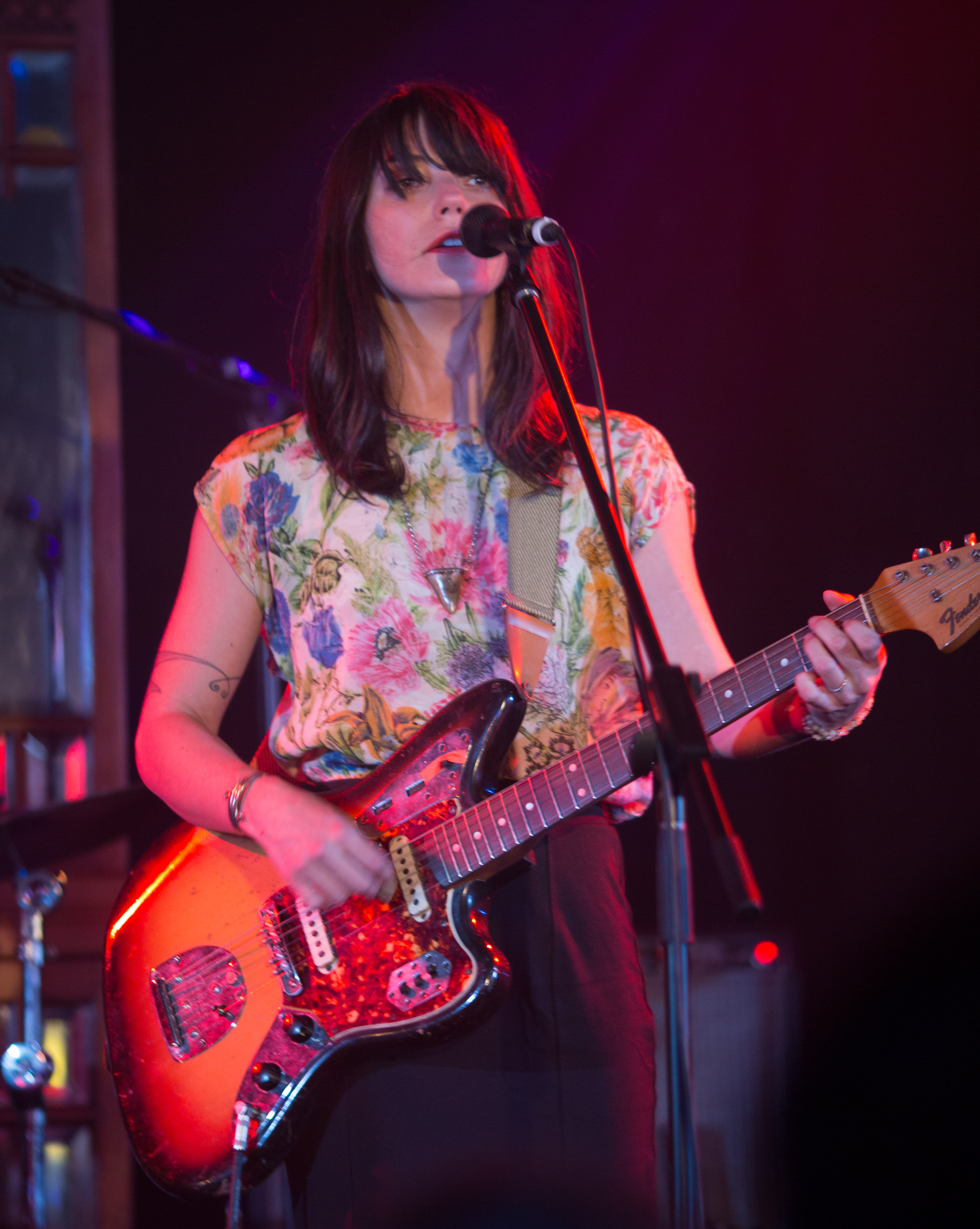 Sharon Van Etten (January 6, 2013)